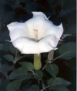 Datura inoxia, Zion National Park